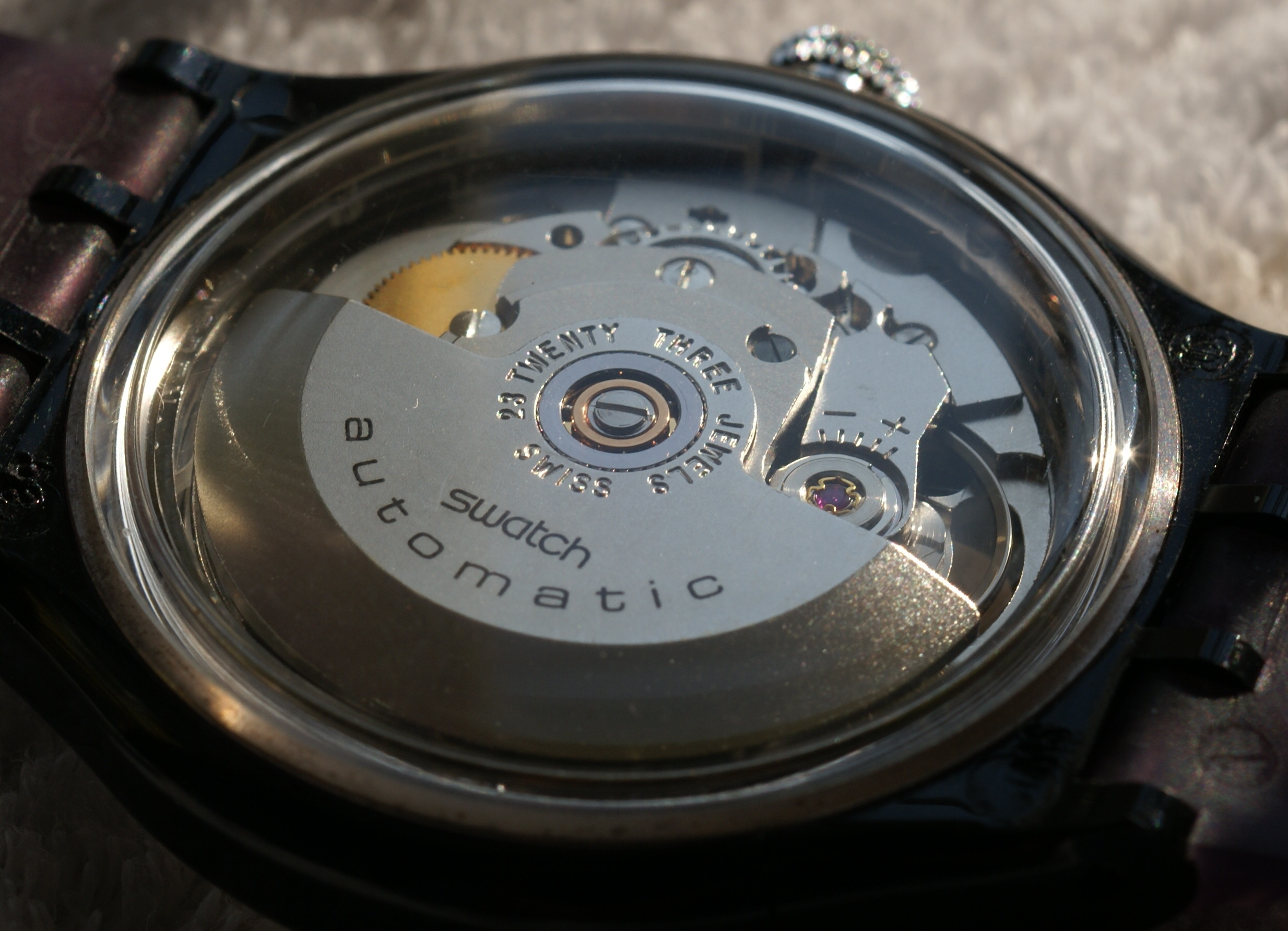 ETA movement #2842 on SWATCH